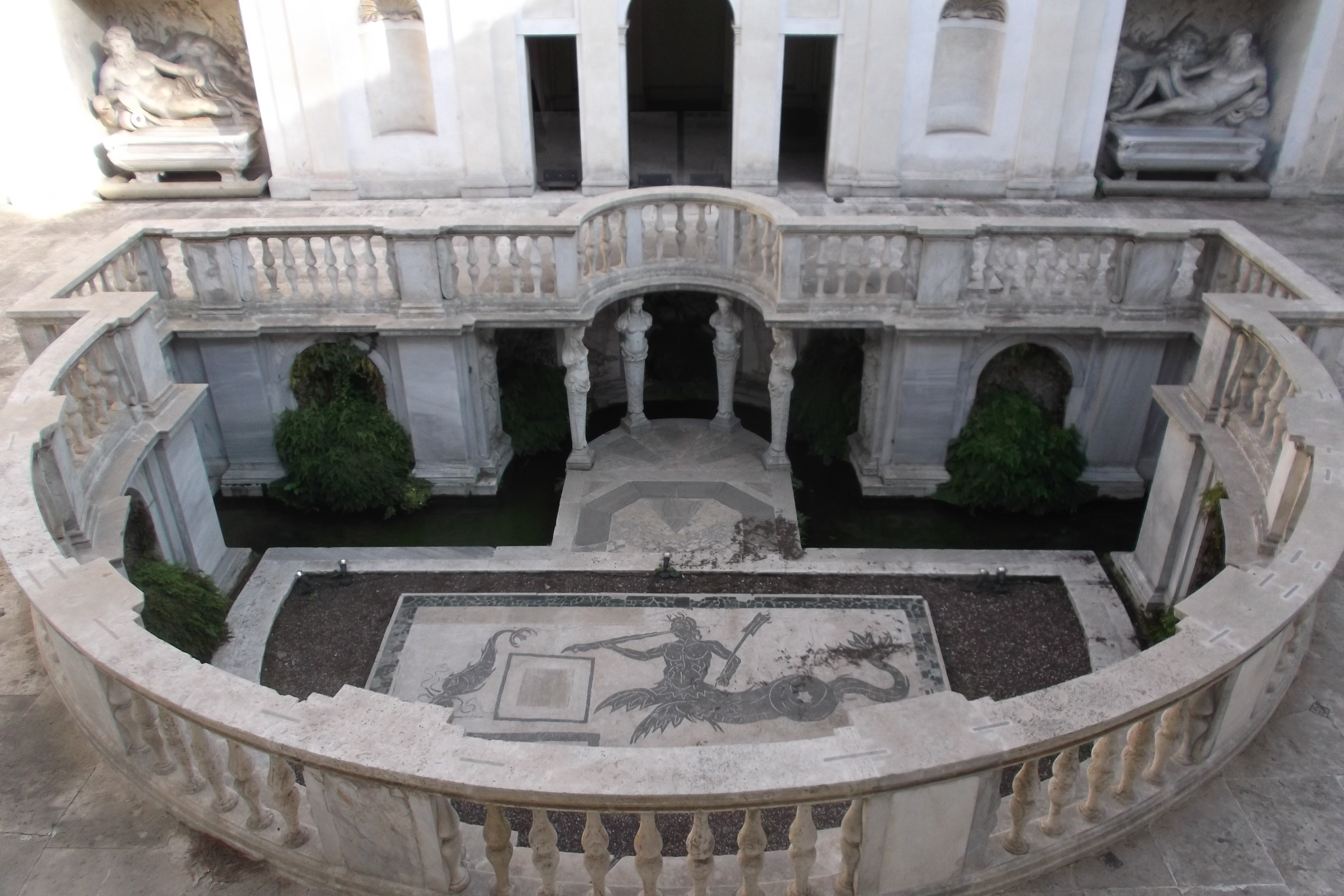 Nymphaeum in Villa Giulia, Rome, Italy This is a photo of a monument which is part of cultural heritage of Italy.